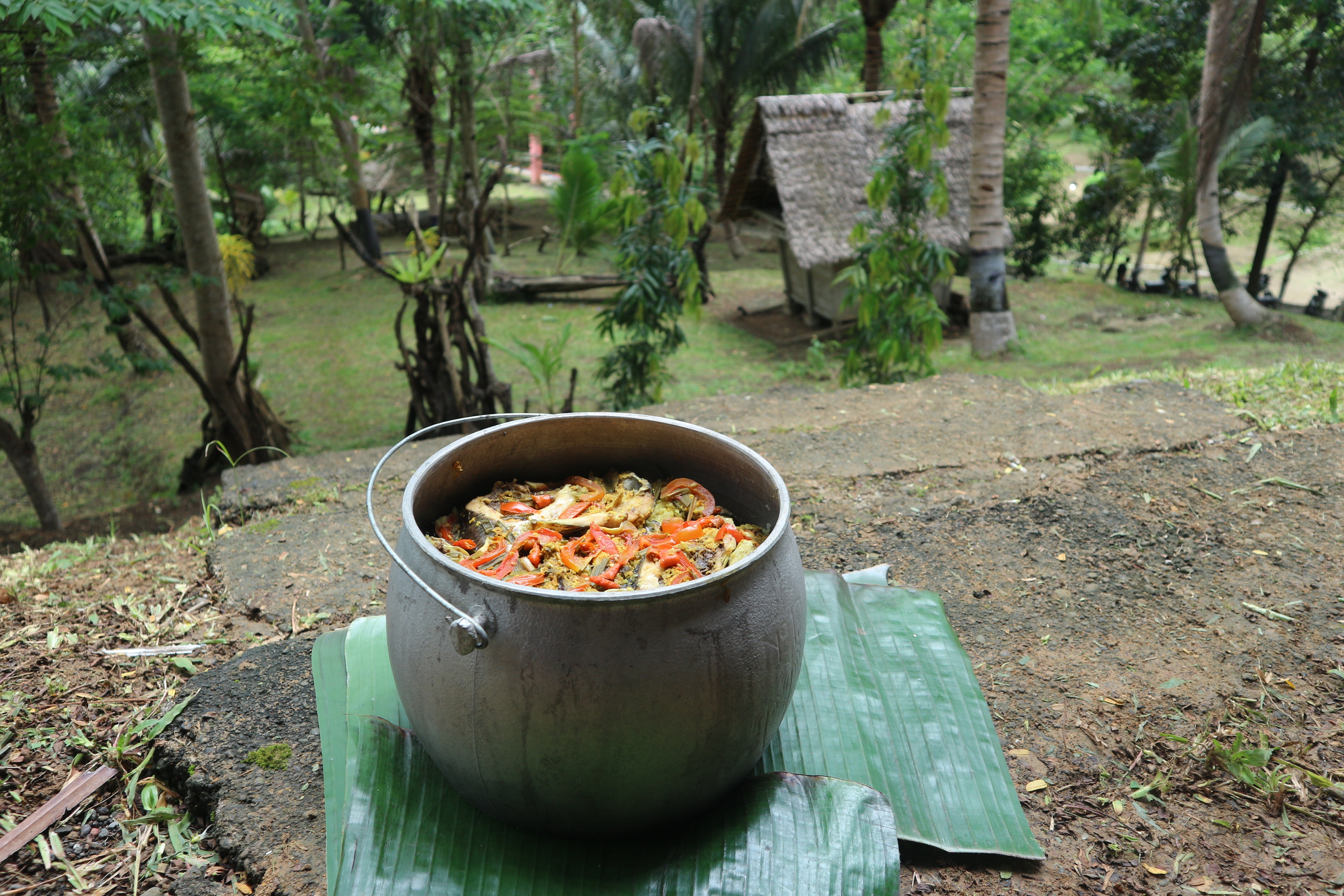 Nasi Liwet Jolem. Nasi Liwet khas Desa Margacinta Pangandaran. Di atas Nasi ada ikan mas Masak kuning yang sedap sekali. Rempahnya membuat masakan ini Makin lezat